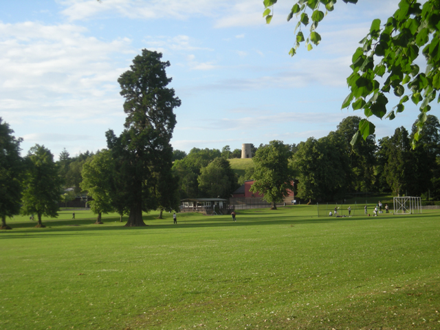 The birthplace of the modern Olympic Games William Penny Brookes, a local doctor, revived the Olympic Games on this field in the mid 19th century. By 1870 it had become a leading athletics meeting. In 1890 some foreigner named 'de Coubertin' visited the Games and in 1896 organised the first international games in Athens (any American reading this, that's Athens, Greece not Athens, Georgia). But for a local Shropshire doctor would we have the spectacular meetings we now endure, sorry, enjoy every 4 years. In the background are the remains of the Much Wenlock windmill.